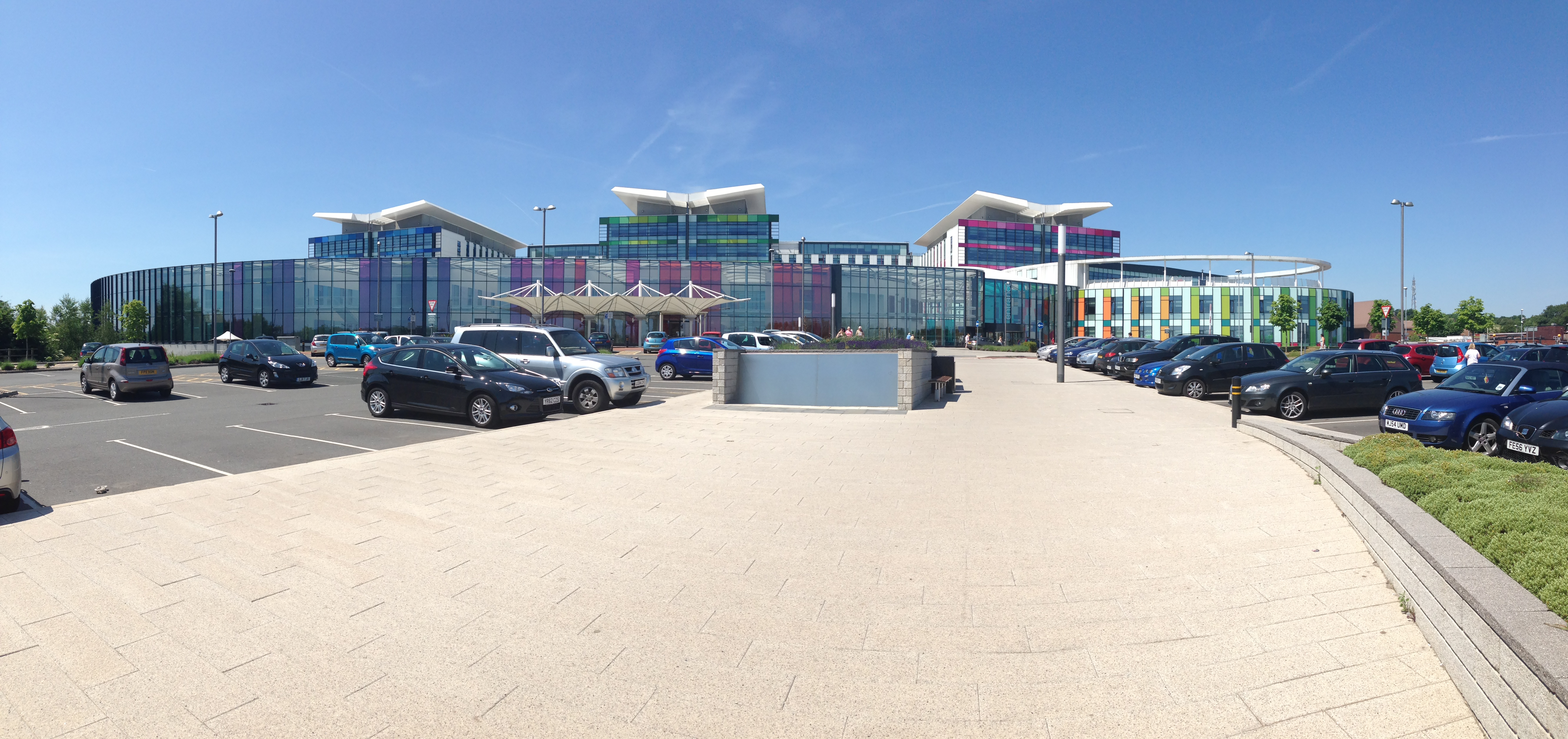 Panorama of Kings Mill hospital, Mansfield.